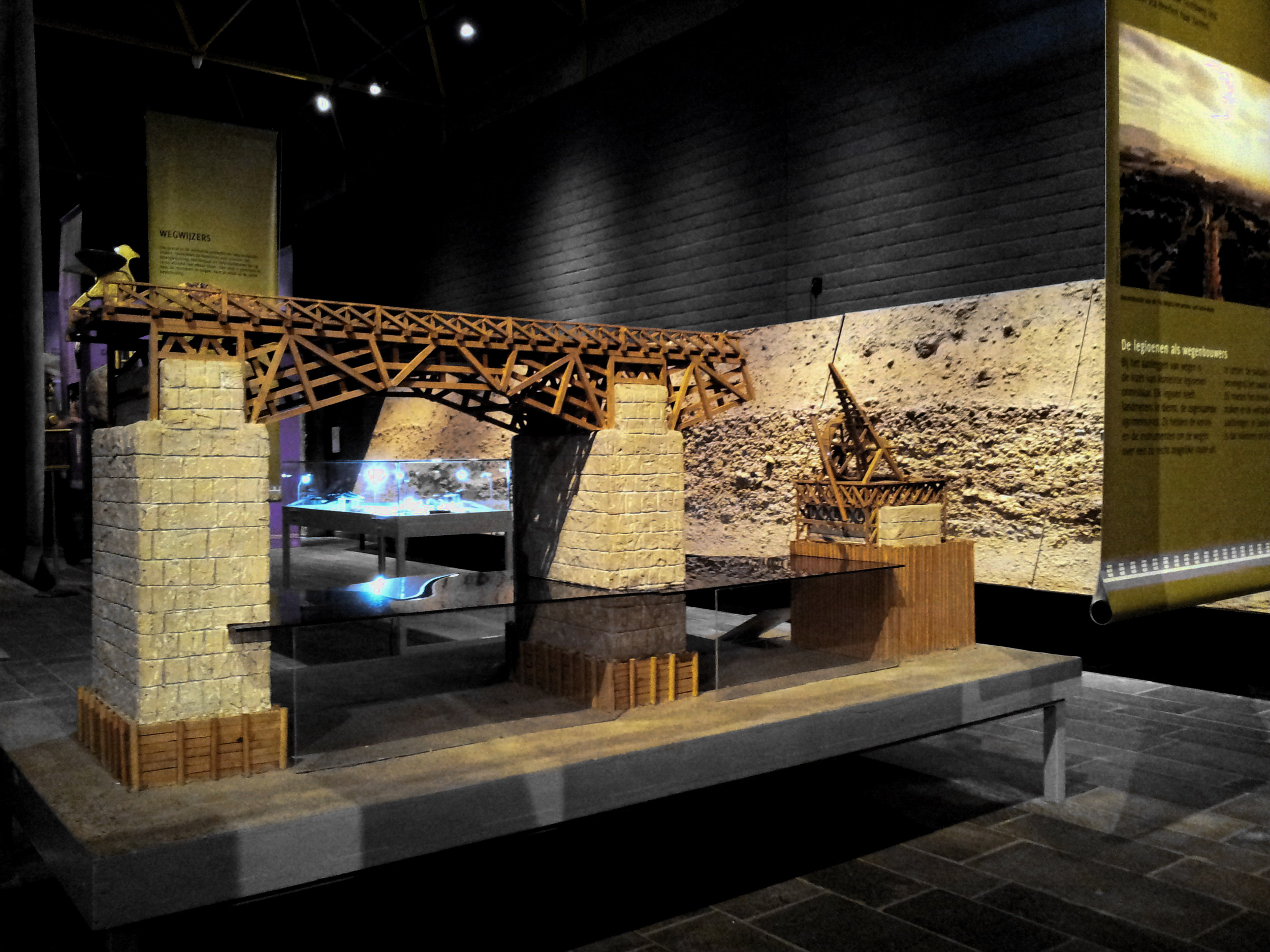 Heerlen, Limburg, the Netherlands. View of a reconstruction of the ancient Roman bridge in Maastricht, part of a temporary exhibition on "Via Belgica" in the Thermenmuseum in Heerlen in 2013.